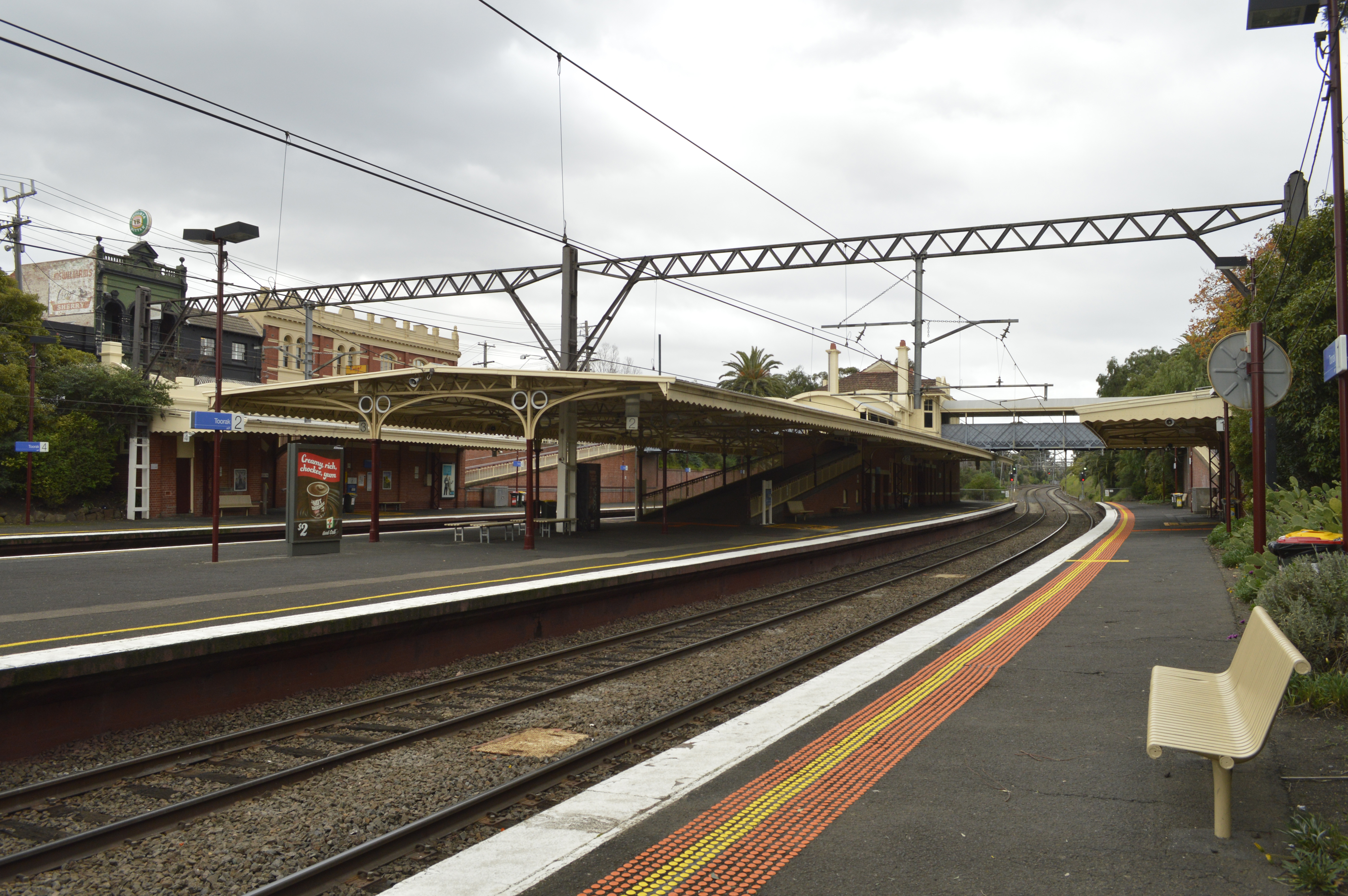 Down view from platform 1